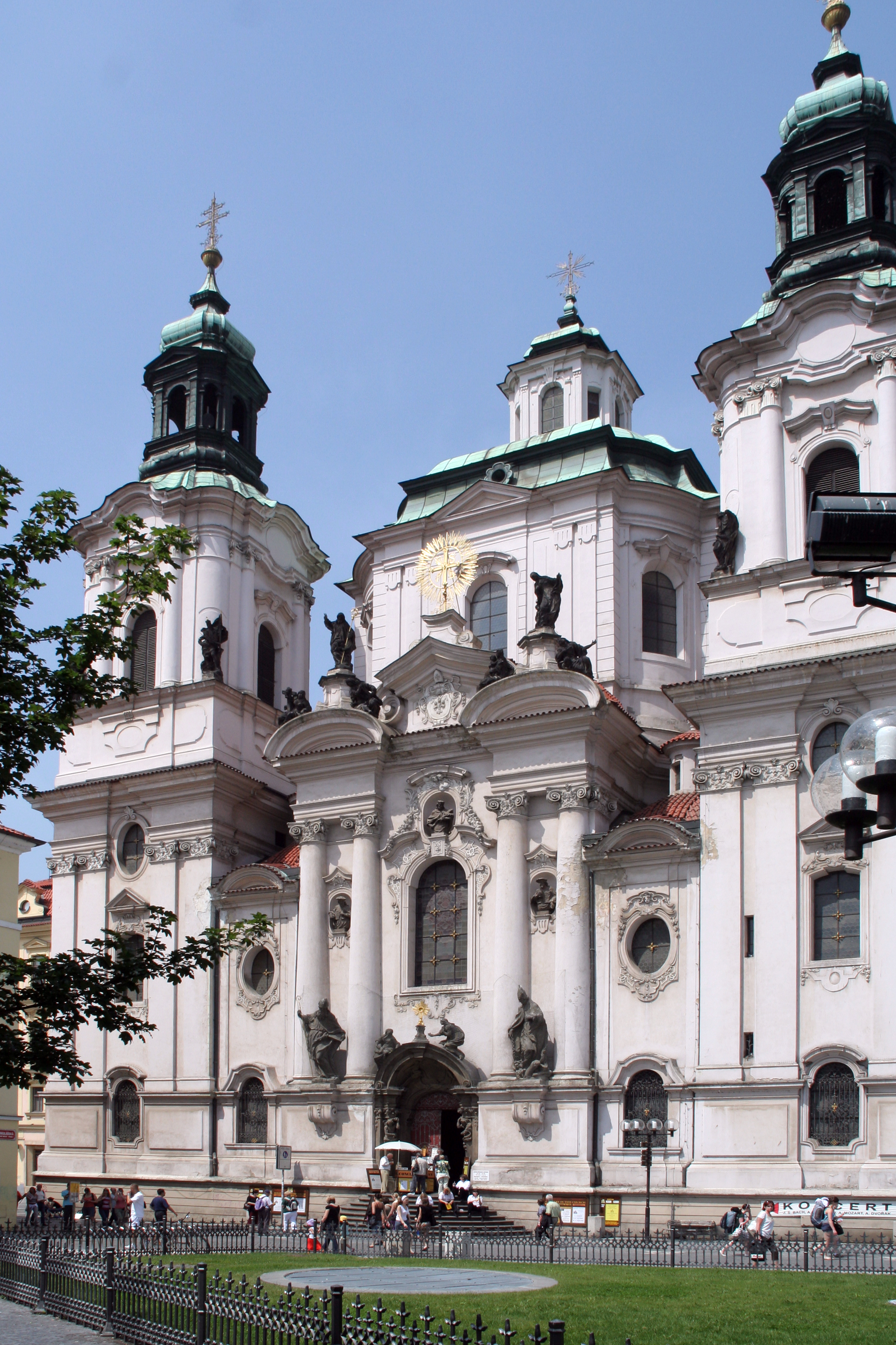 Church of St Nicholas Old Town Square 3